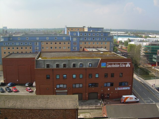 Lincolnshire Echo. Lincolnshire Echo offices and The Junxion beyond 951959 seen from Witham Wharf